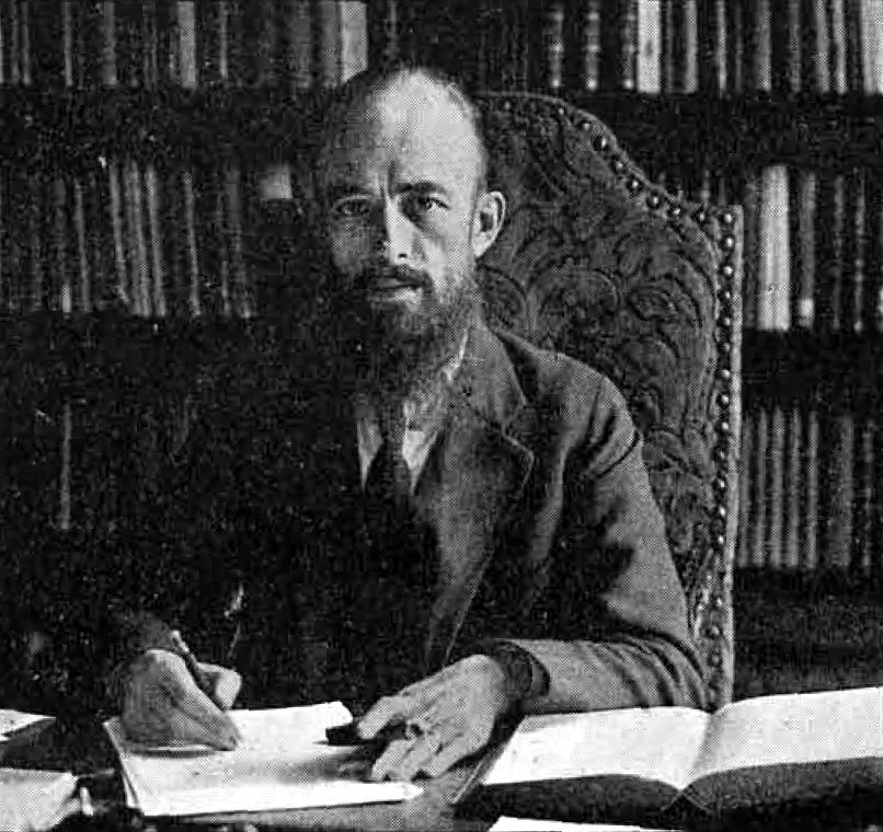 Prof.dr.ir. J.A. Mekel